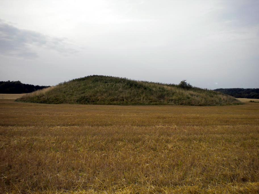 The Eysteinn tumulus Östens hög in Östanbro village at Björksta, as released by image creator RistessonPlace: West Aros, Sweden